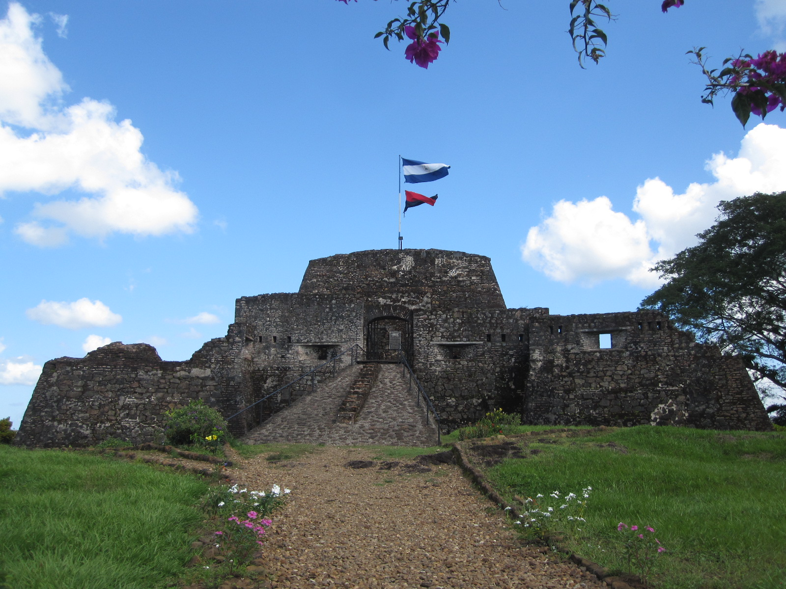 El Castillo, Río San Juan department of Nicaragua, 2011.